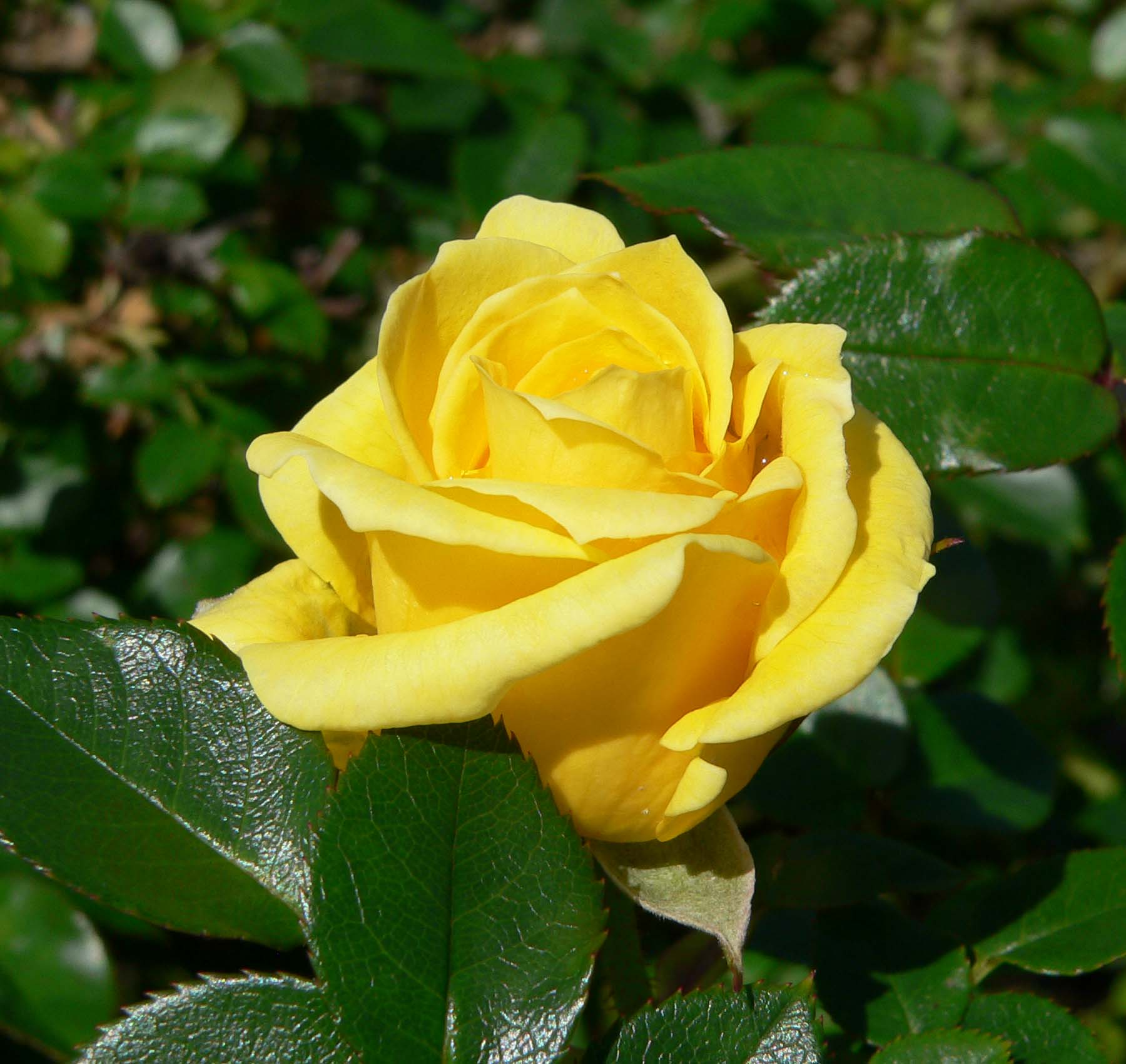 Photo of Rosa 'Dorola' at the San Jose Heritage Rose Garden